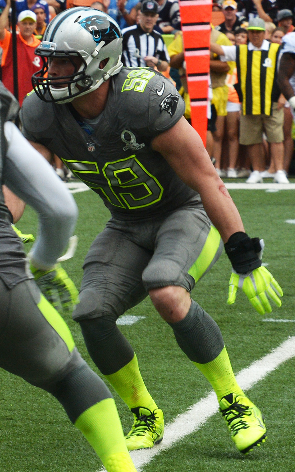 Luke Kuechly in 2014 Pro Bowl.